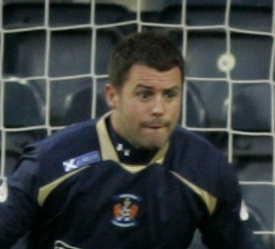 Alan Combe playing for Kilmarnock against Greenock Morton in the Scottish League Cup tie played on 25 August 2009.